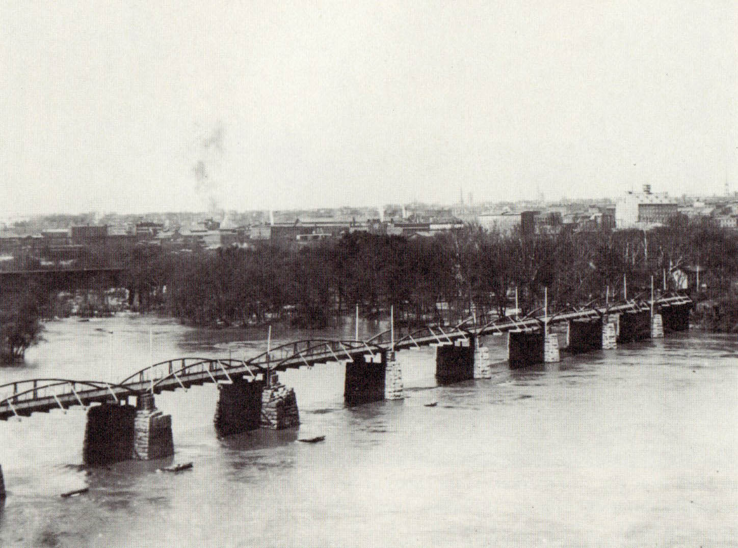 Richmond's Mayo Bridge in 1889